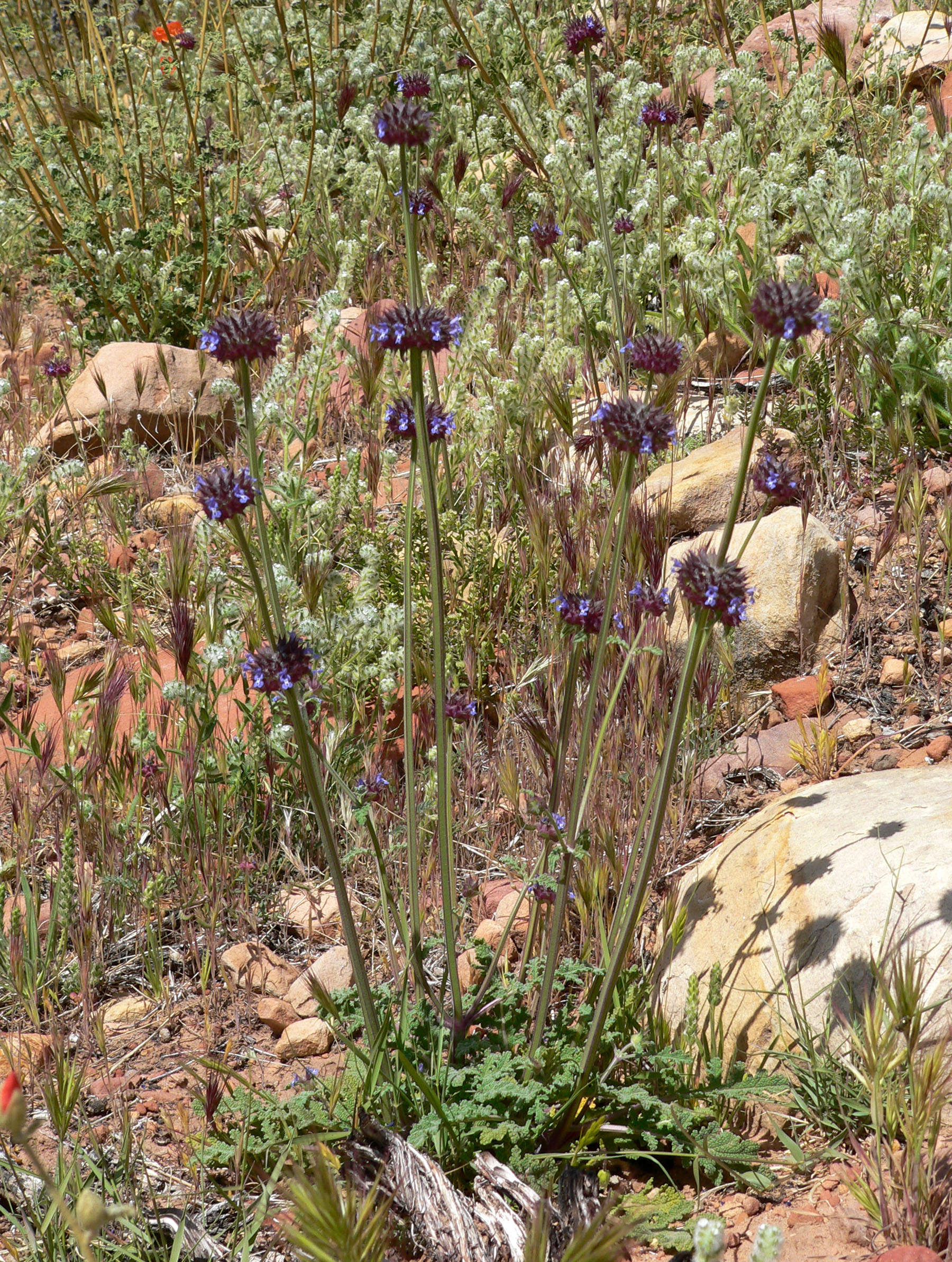 Salvia columbariae in the sandy area of Pine Creek Canyon east of the old homestead, Red Rock Canyon, Spring Mountains, southern Nevada (elev. about 1200 m)